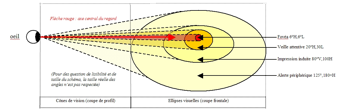 illustration of perspective perception 1